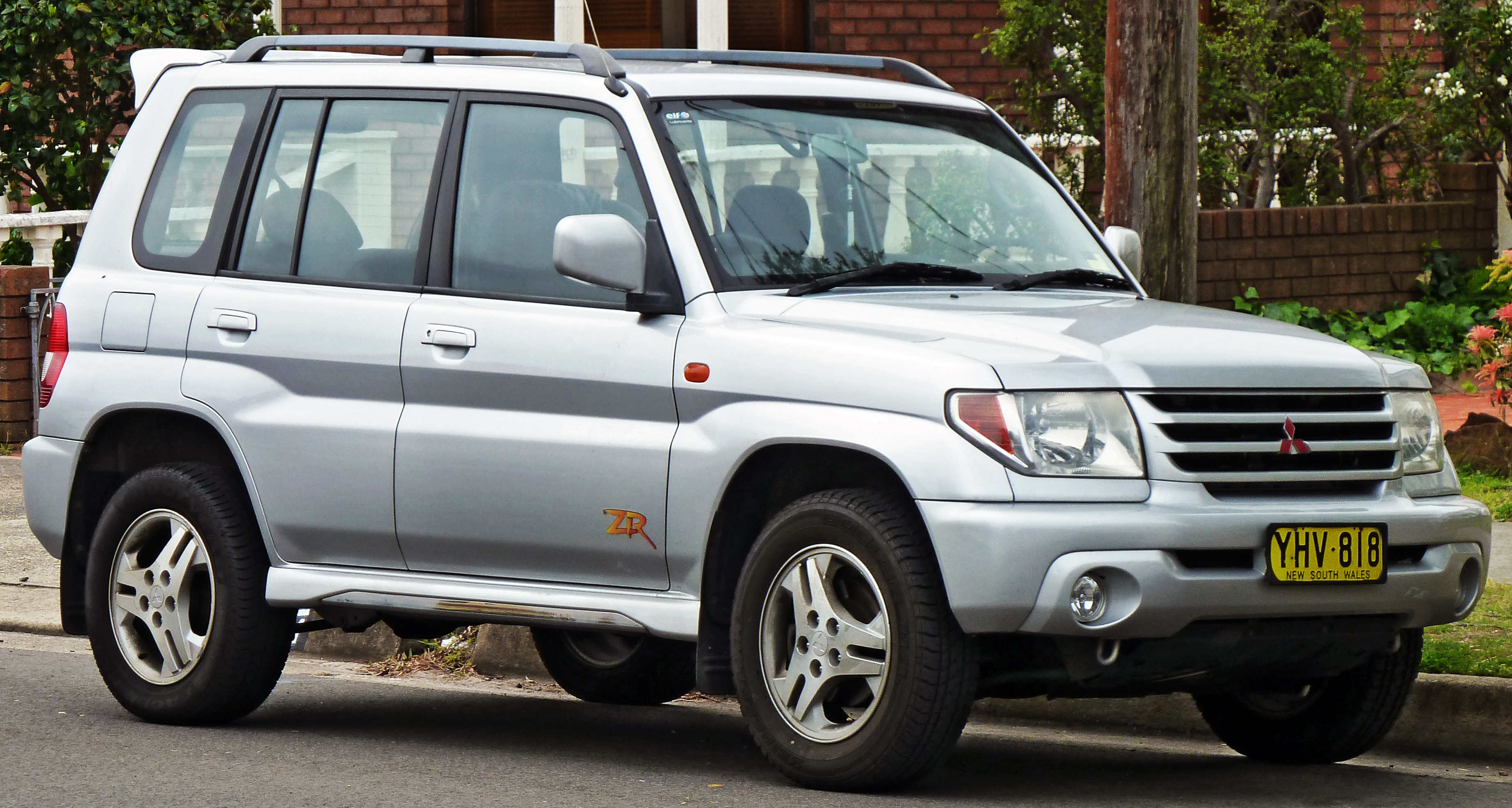 2001–2002 Mitsubishi Pajero iO (QA) ZR 5-door wagon. Photographed in Sandringham, New South Wales, Australia.